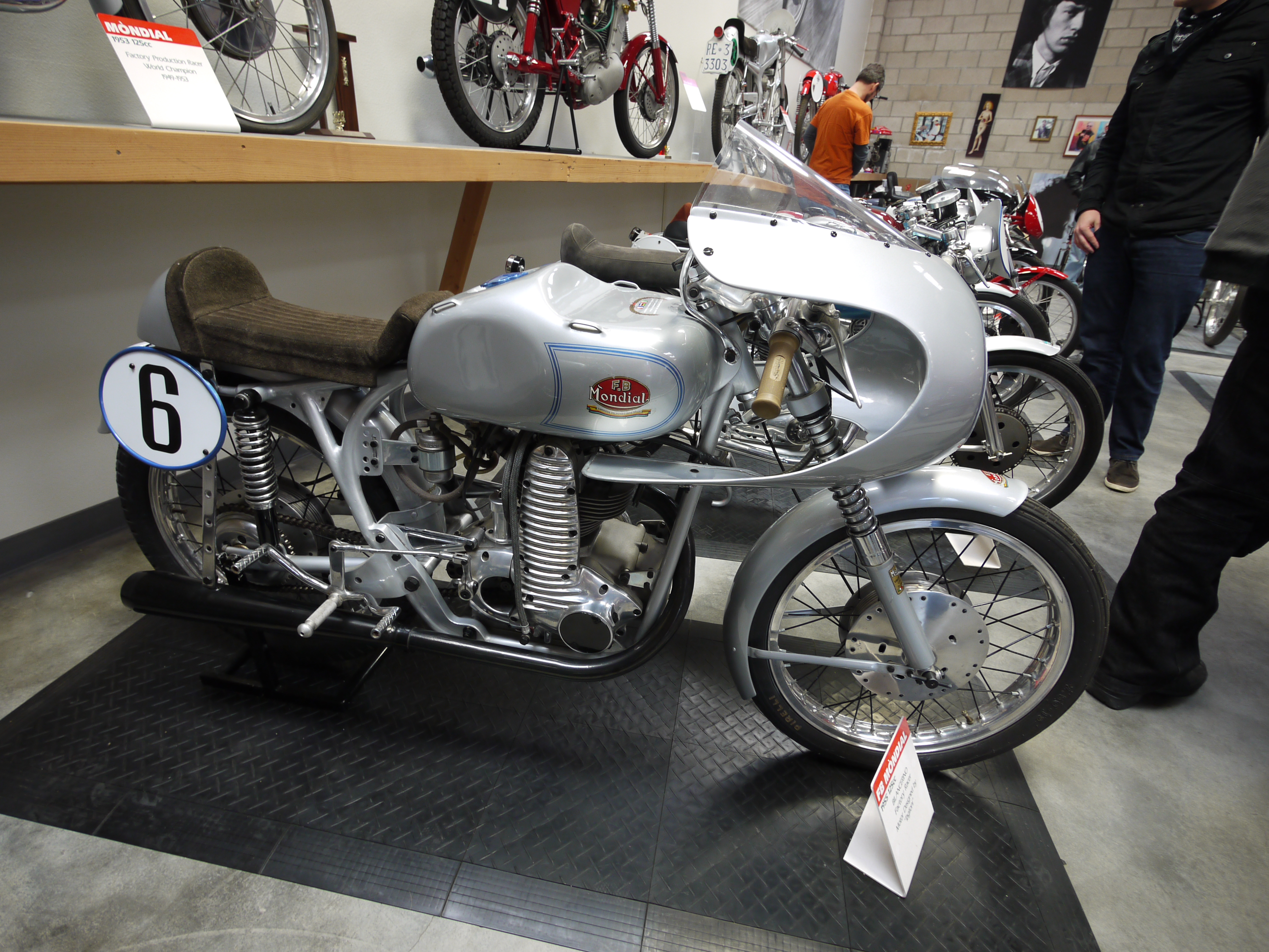 Mondial 125 Bilancerino, 1955, factory racer, motor designed by Fabio Taglioni